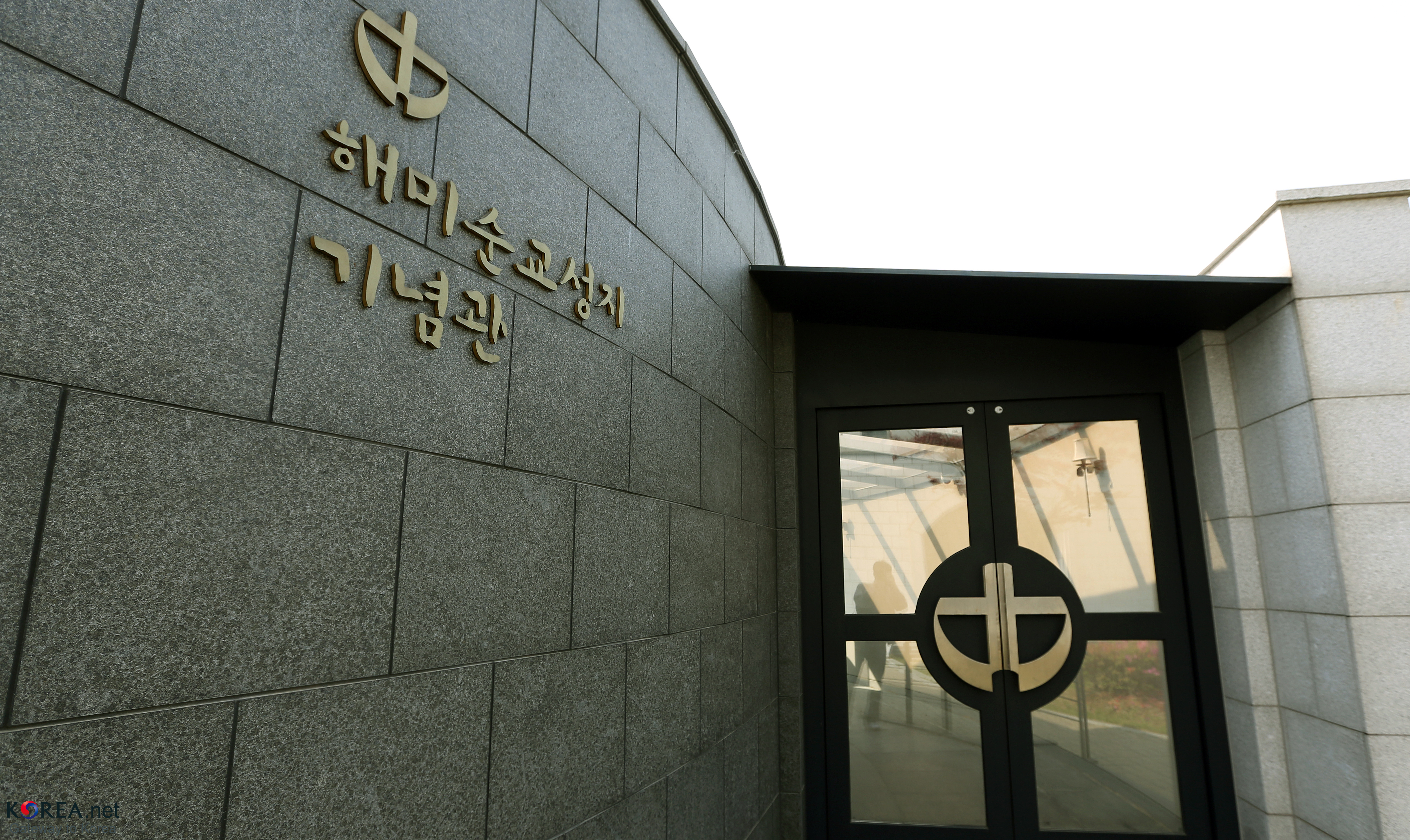 Haemi Martyrdom Holy Ground May 13, 2014 Eumnae-ri, Haemi-Myeon, Seosan-si, Chungcheongnam-do Ministry of Culture, Sports and Tourism Korean Culture and Information Service ( Official Photographer: Jeon Han This official Republic of Korea photograph is licensed as free content, so while restrictions such as personality or privacy rights may apply, in general, manipulations are allowed. If you want a photograph without a watermark, you may ask via Flickr e-mail. 해미성지 2014-05-13 충청남도 서산시 해미면 읍내리 문화체육관광부 해외문화홍보원 코리아넷 전한